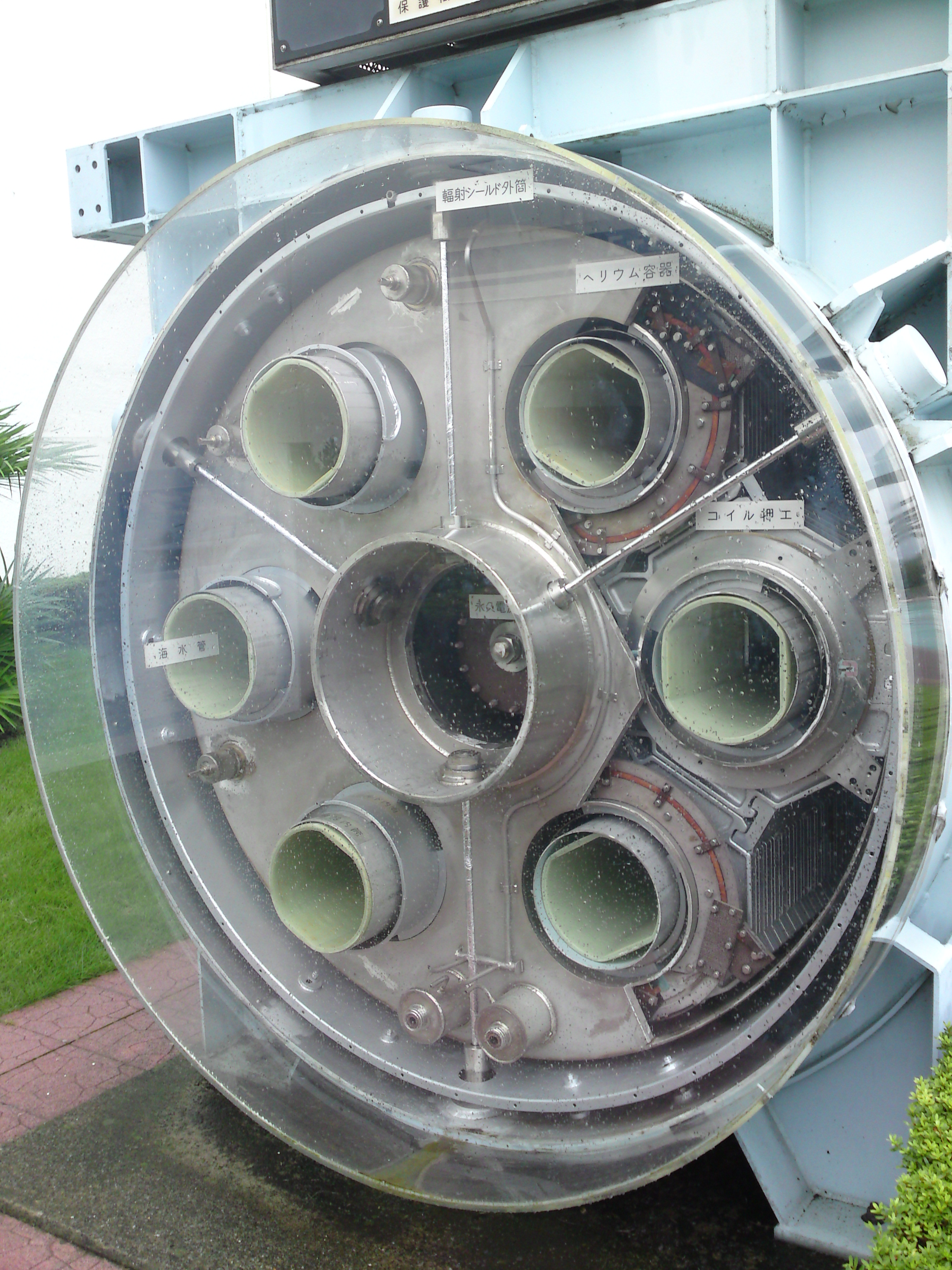 View of one end of the magnetohydrodynamic drive fitted to the Japanese research vessel Yamato 1. The drive unit has a radius of approximately 2 meters.